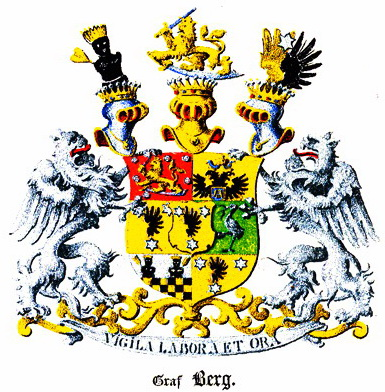 Graf Berg family arms